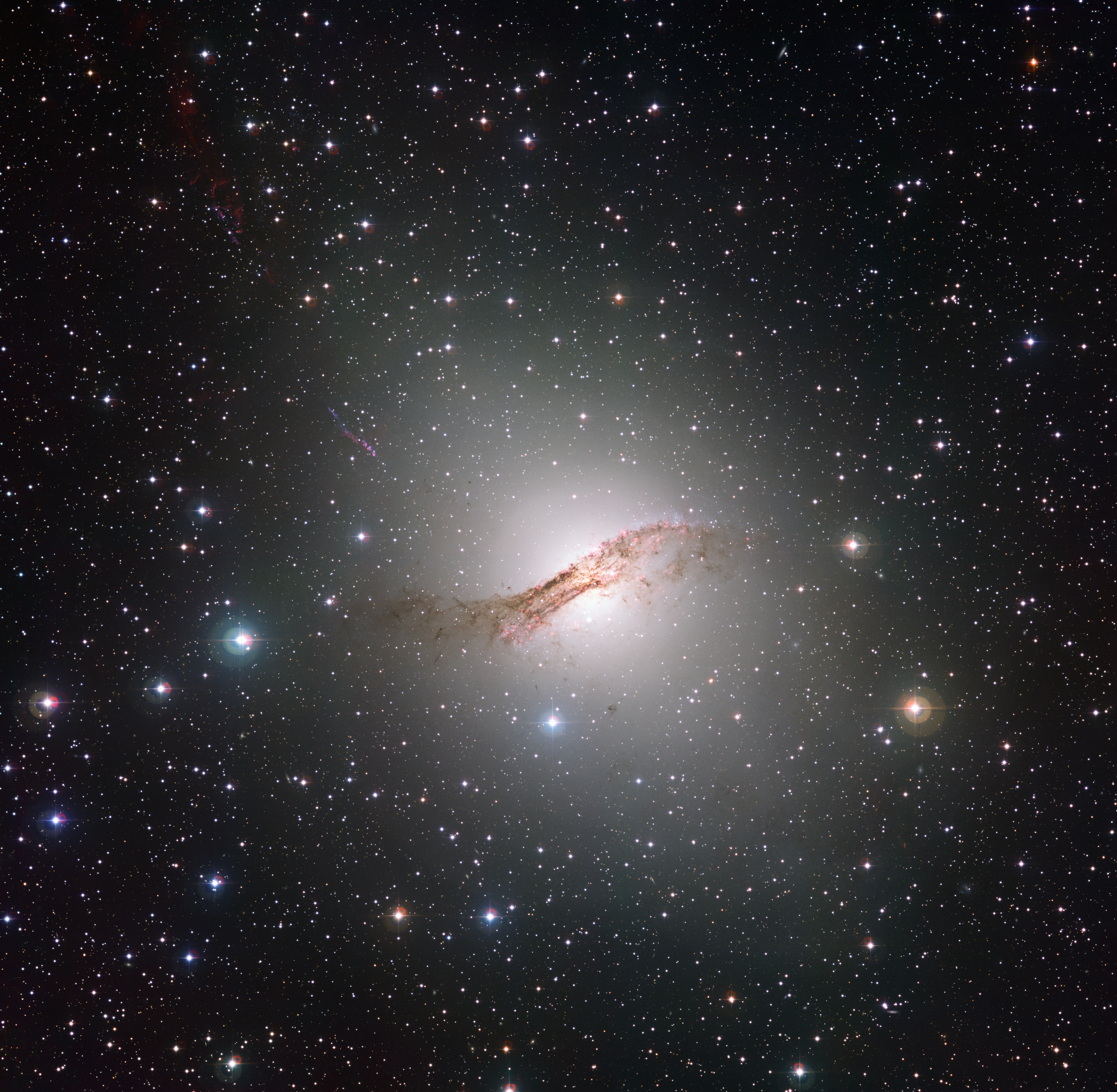 The peculiar galaxy Centaurus A (NGC 5128) is pictured in this image taken with by the Wide Field Imager attached to the MPG/ESO 2.2-metre telescope at the La Silla Observatory in Chile. With a total exposure time of more than 50 hours this is probably the deepest view of this peculiar and spectacular object ever created.